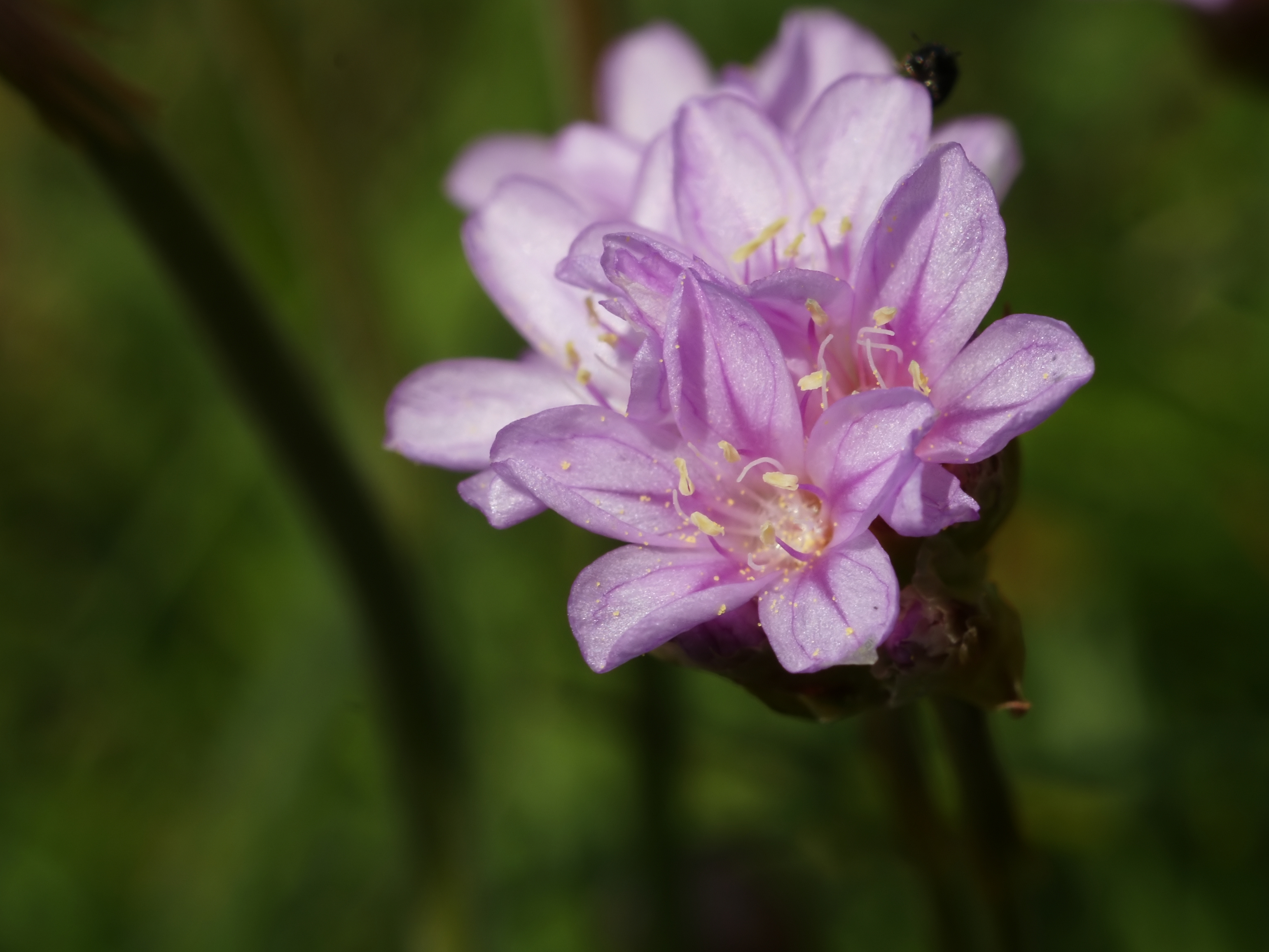 Thrift seapink at Boulogne sur Mer, France